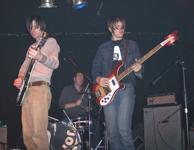 Anton Newcombe (Brian Jonestown Massacre) Mojo's Columbia, MO Oct. 21, 2004